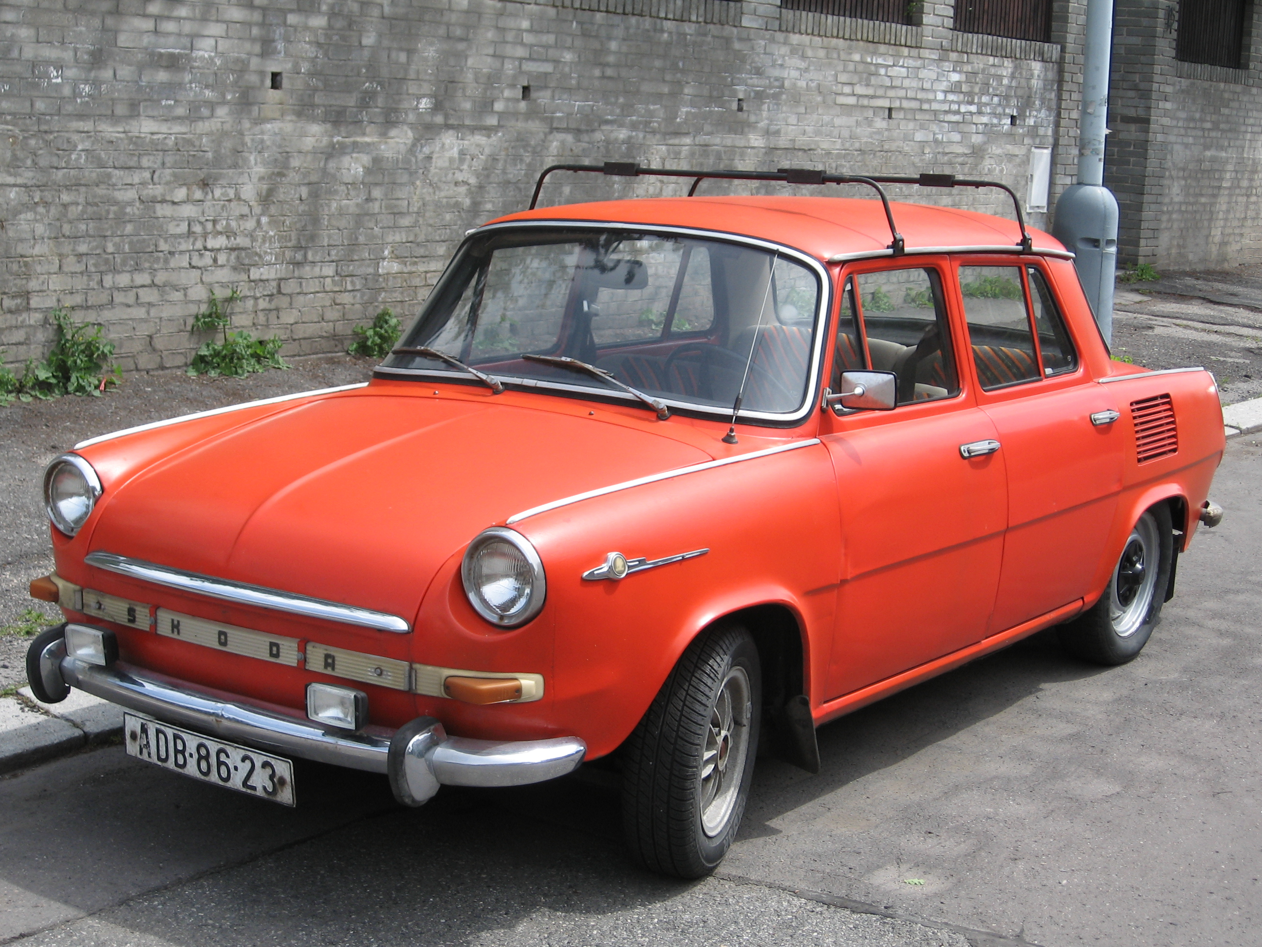 Škoda 1000MB, 1964-1969 (model 1969, wheels aren´n original)